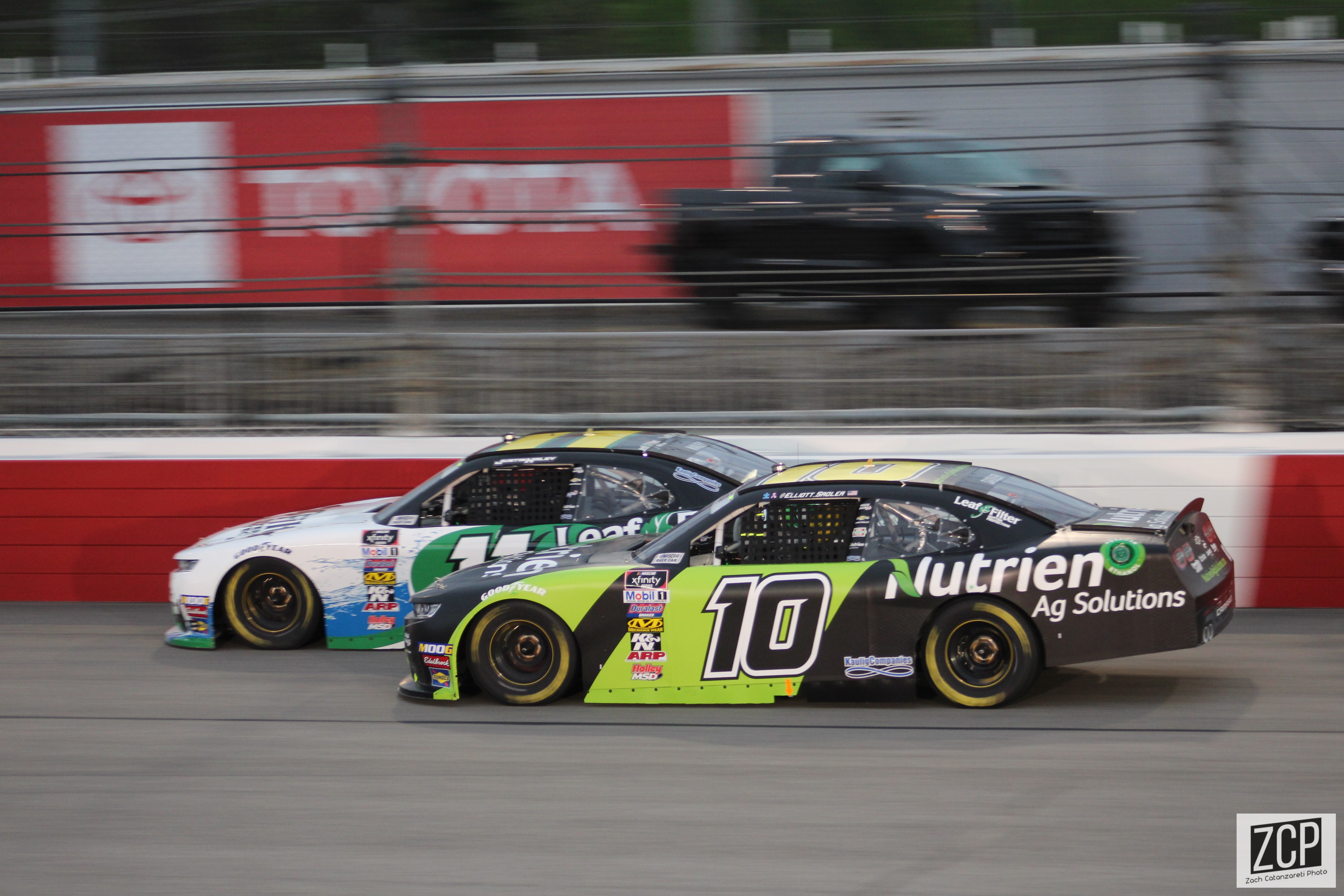 2019 Toyota Owners 400